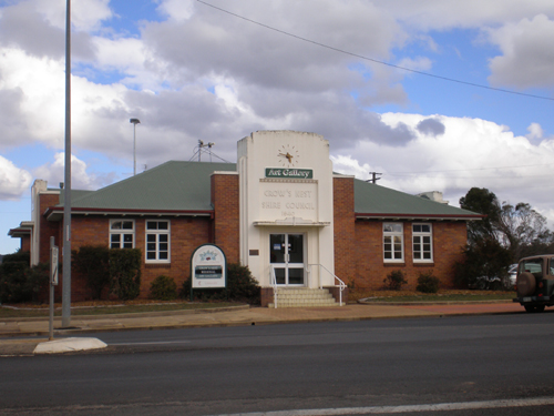 Crows Nest Art Gallery in south-east Queensland is managed by the Toowoomba Regional Council. It occupies what was formerly the Crows Nest Council building